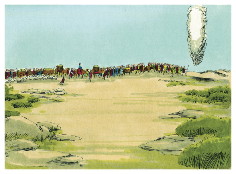 Biblical illustration of Book of Exodus Chapter 14